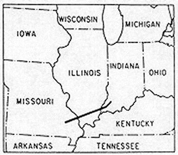 A map of the track of the 219-mile, 3.5 hour Tri-State Tornado which killed 695 in Missouri, Illinois, and Indiana on 18 March 1925.